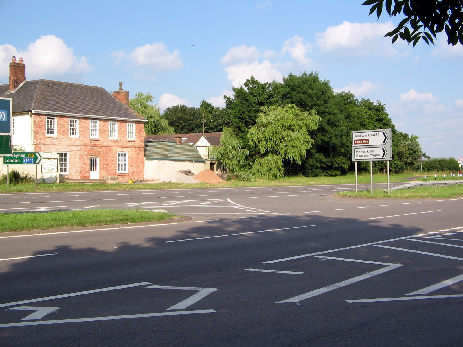 High Cross on the Leicestershire/Warwickshire border, looking in a south-easterly direction. The meeting point of the former Fosse Way and Watling Street Roman roads. At the site today, a dual carriageway stretch of the A5 road meets a minor B-road to the south, and a country lane to the north.